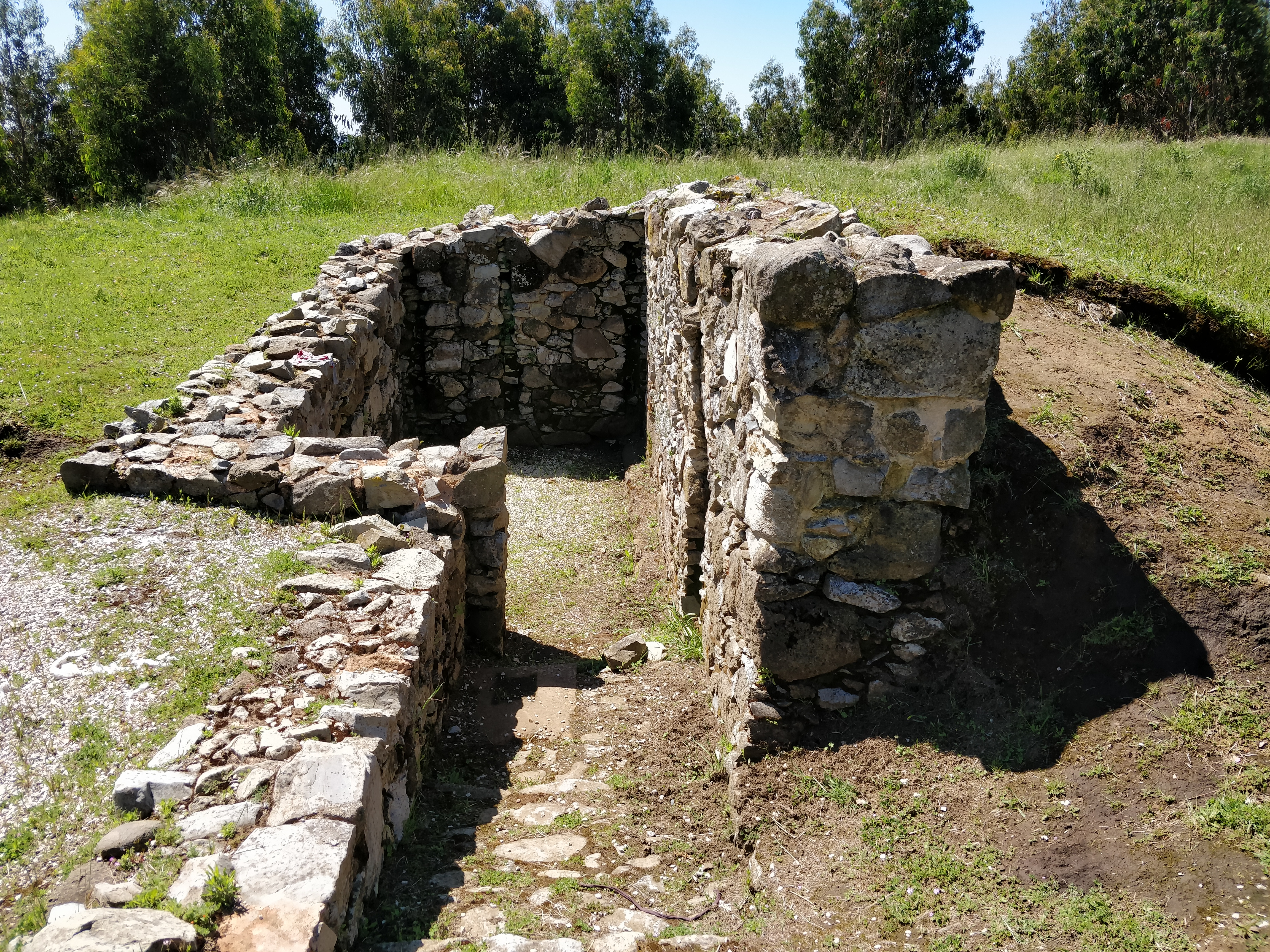 Powder magazine of the Fort of Simplício on Monte Agraço, north of Lisbon, Portugal